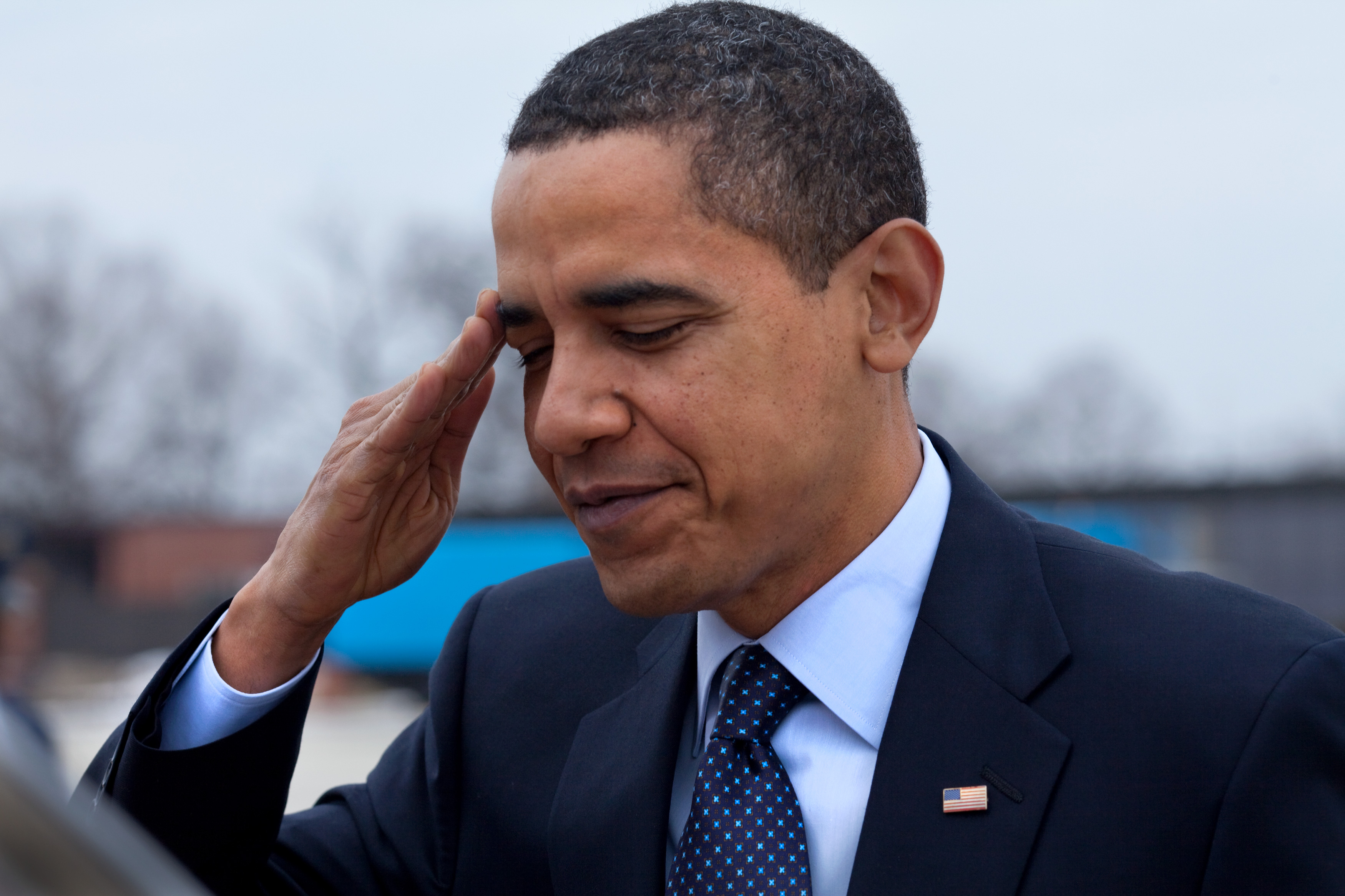 President Barack Obama salutes at Andrews Air Force Base before departing for Columbus, Ohio 3/6/09.